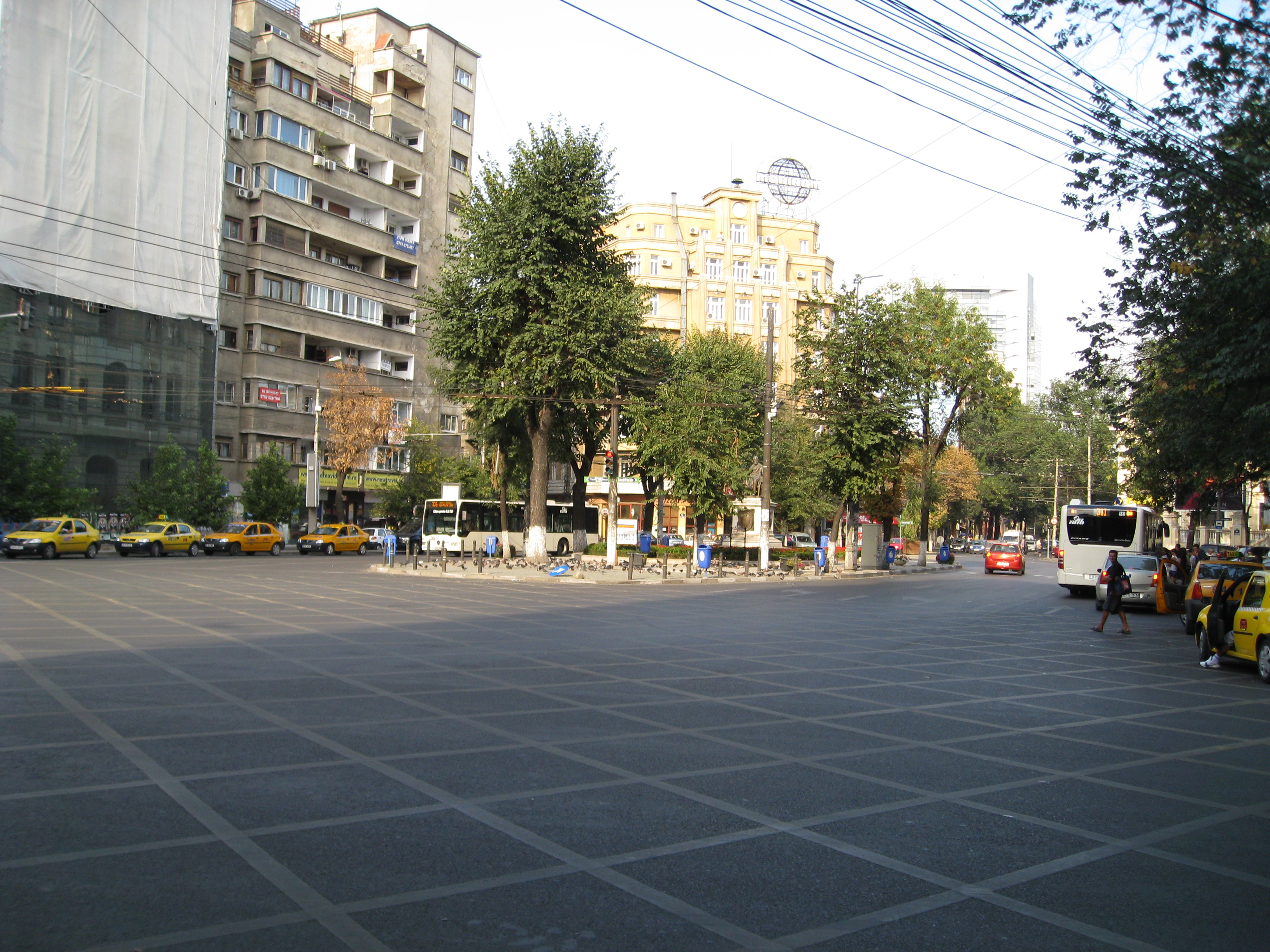 Piaţa Rosetti.